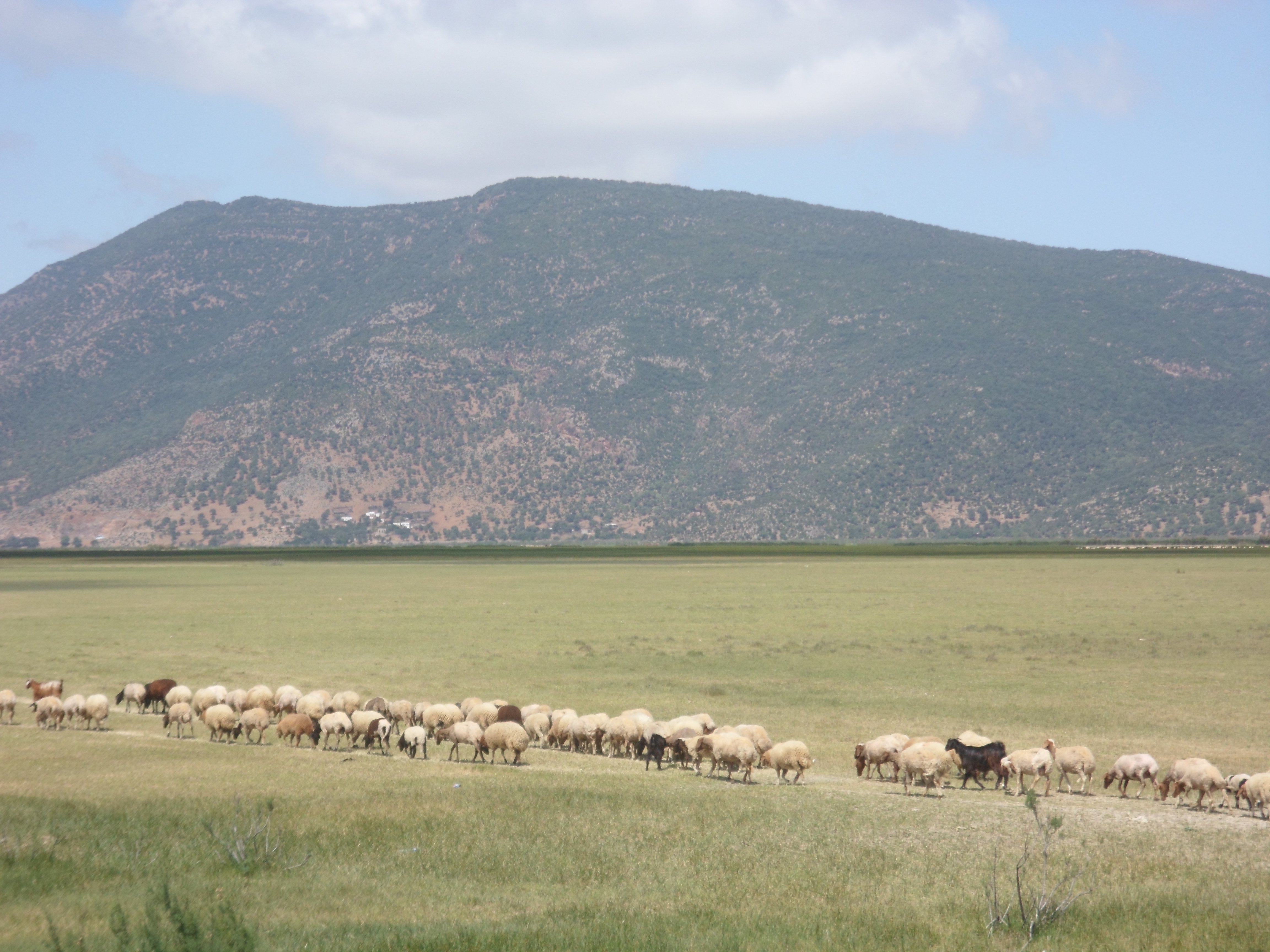 ichkeul national park tunisia